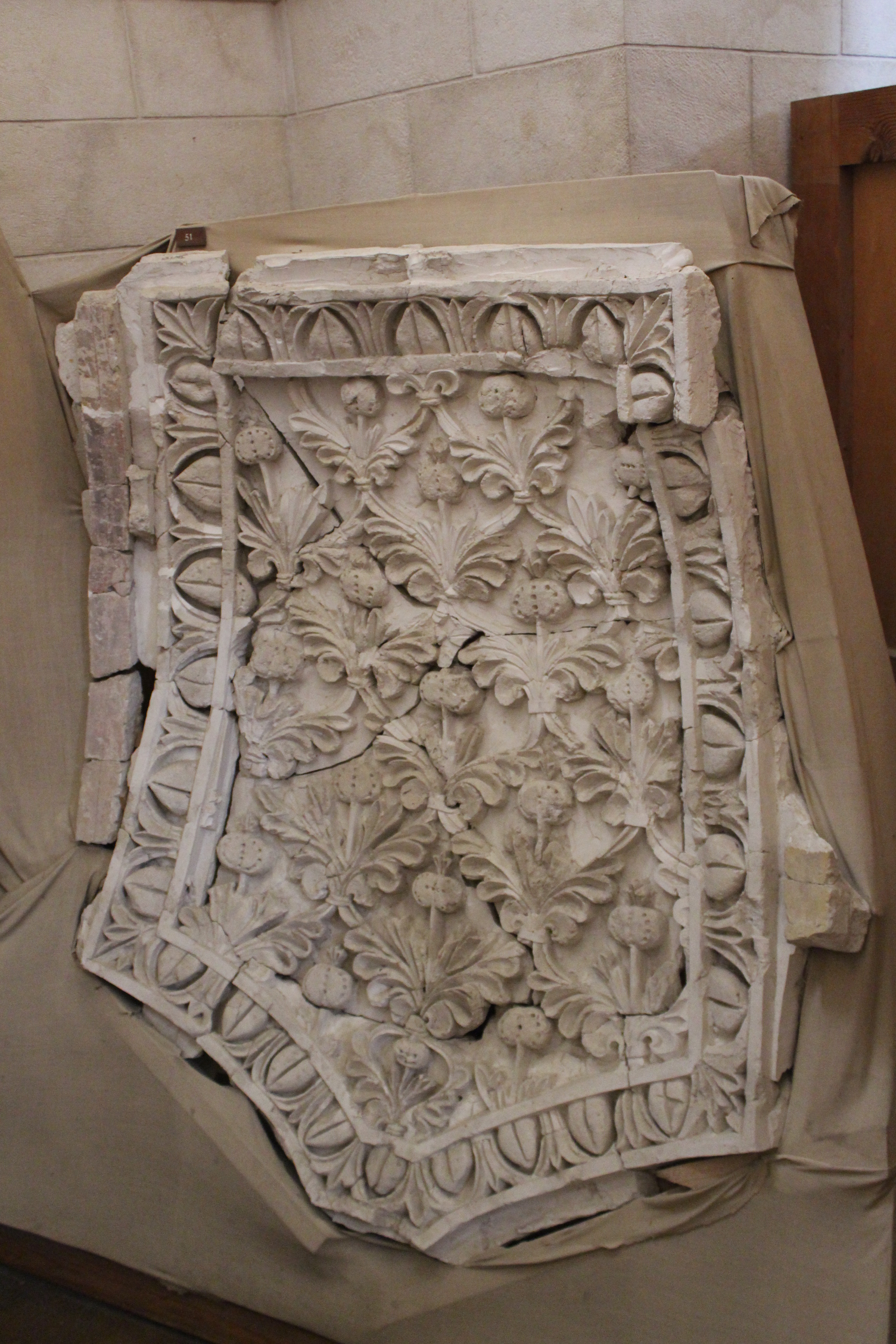 Hisham's Palace (Khirbat al Mafjar) remains at the Rockefeller Museum, Jerusalem